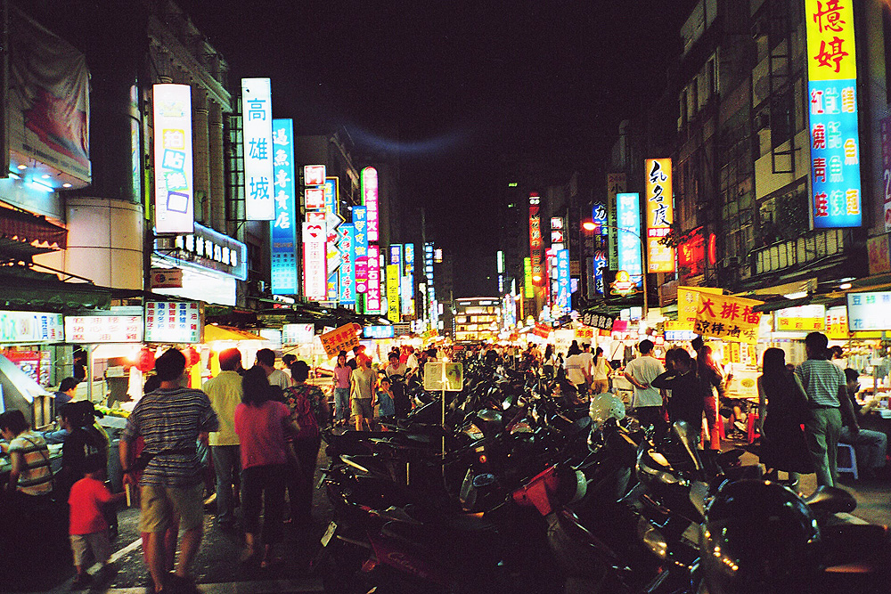 The weekly Liouho Night Market in Kaohsiung, Taiwan. Picture by Henry Trotter, 2003.